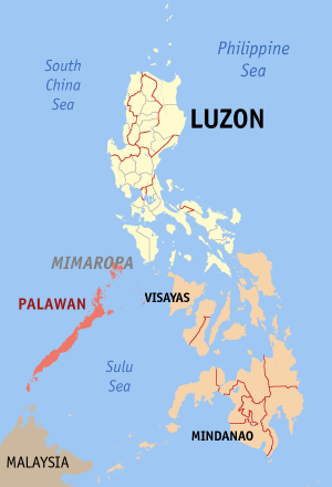 Map of the Philippines showing the location of Palawan. Red shade: Palawan Province; Light shade: Luzon Island Group; Orange: Rest of the Philippines